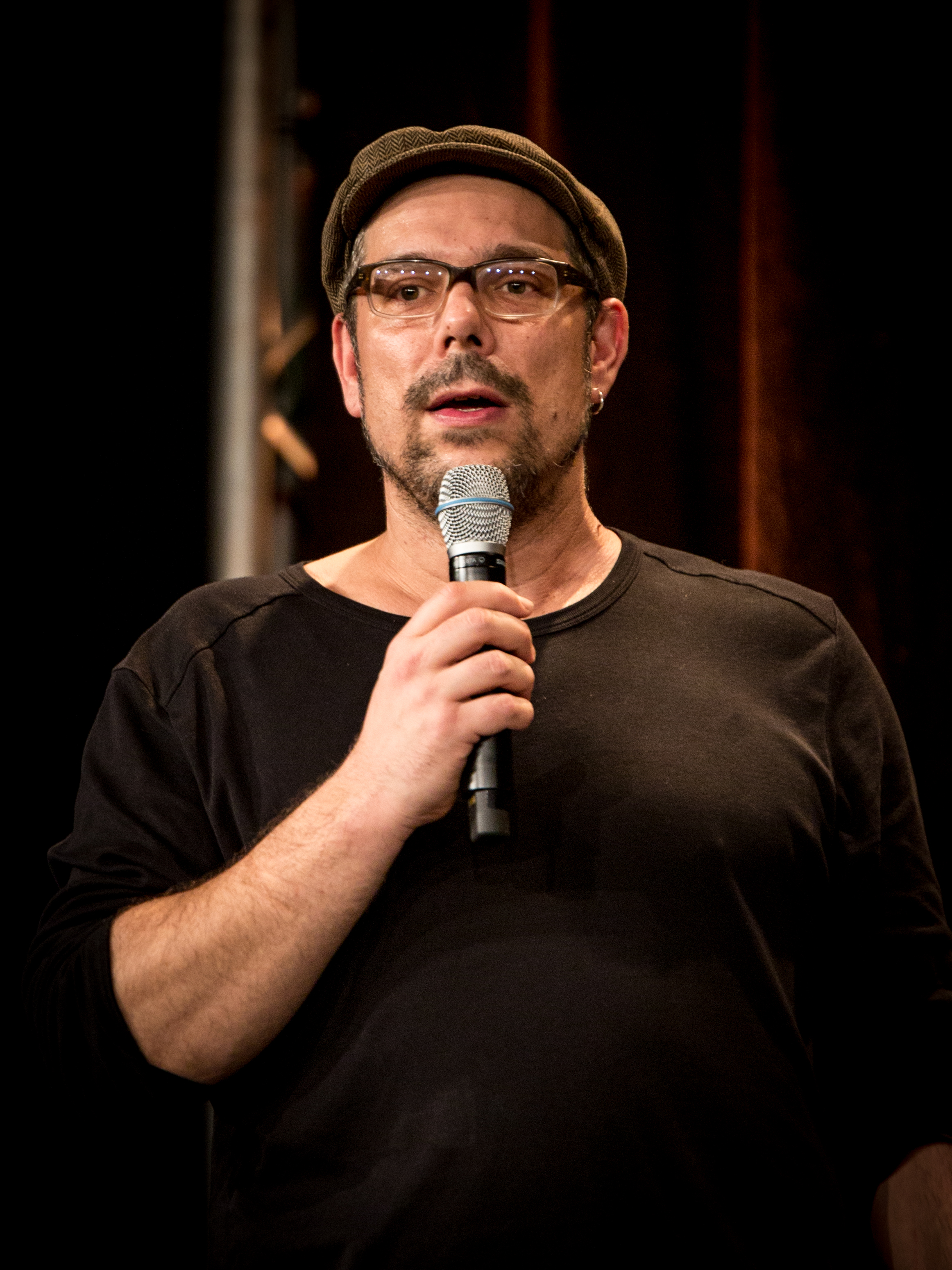 German slam poet Felix Römer at the Internationale Kulturbörse Freiburg 2018